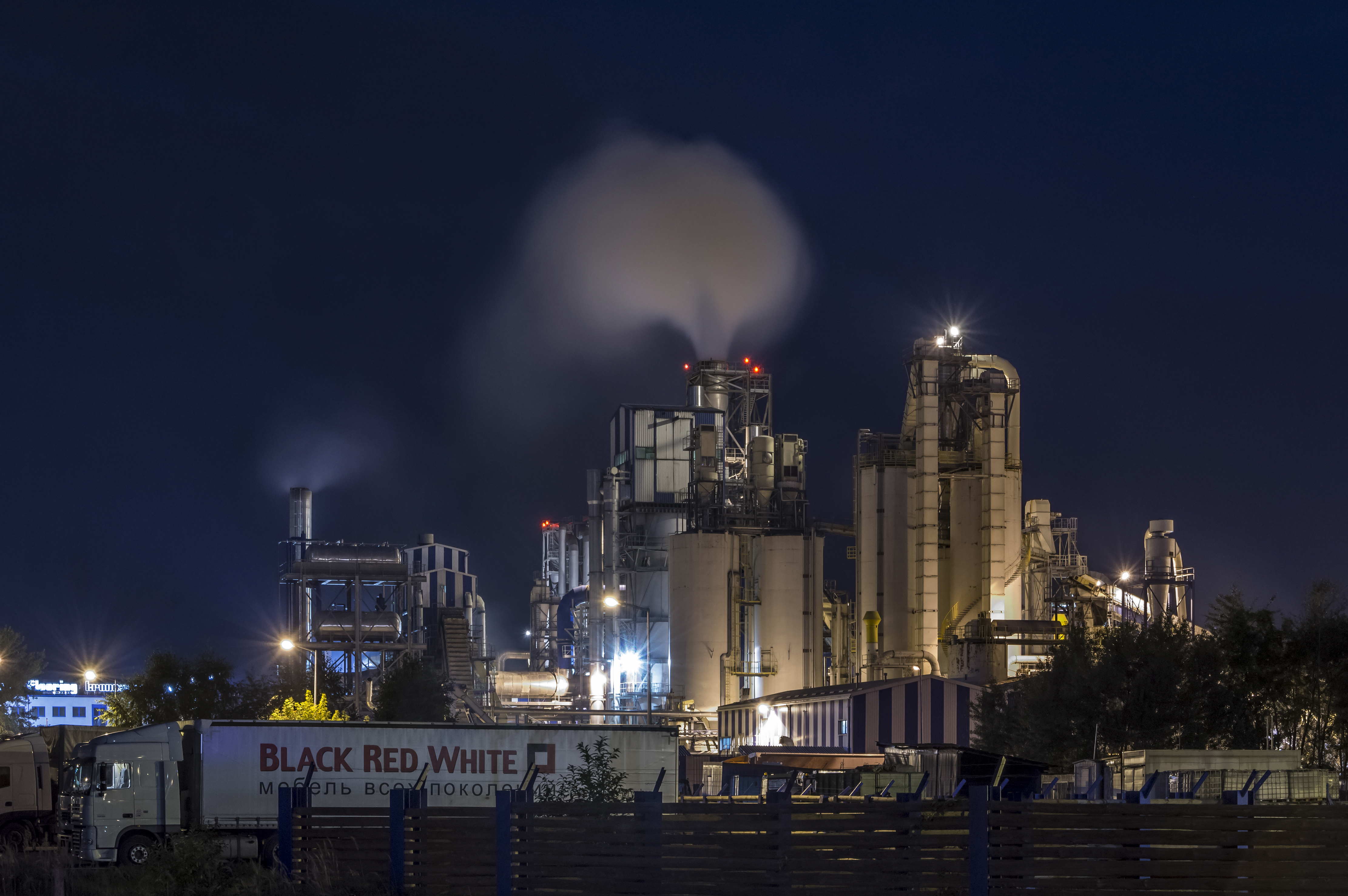 Kronospan plant in Mielec